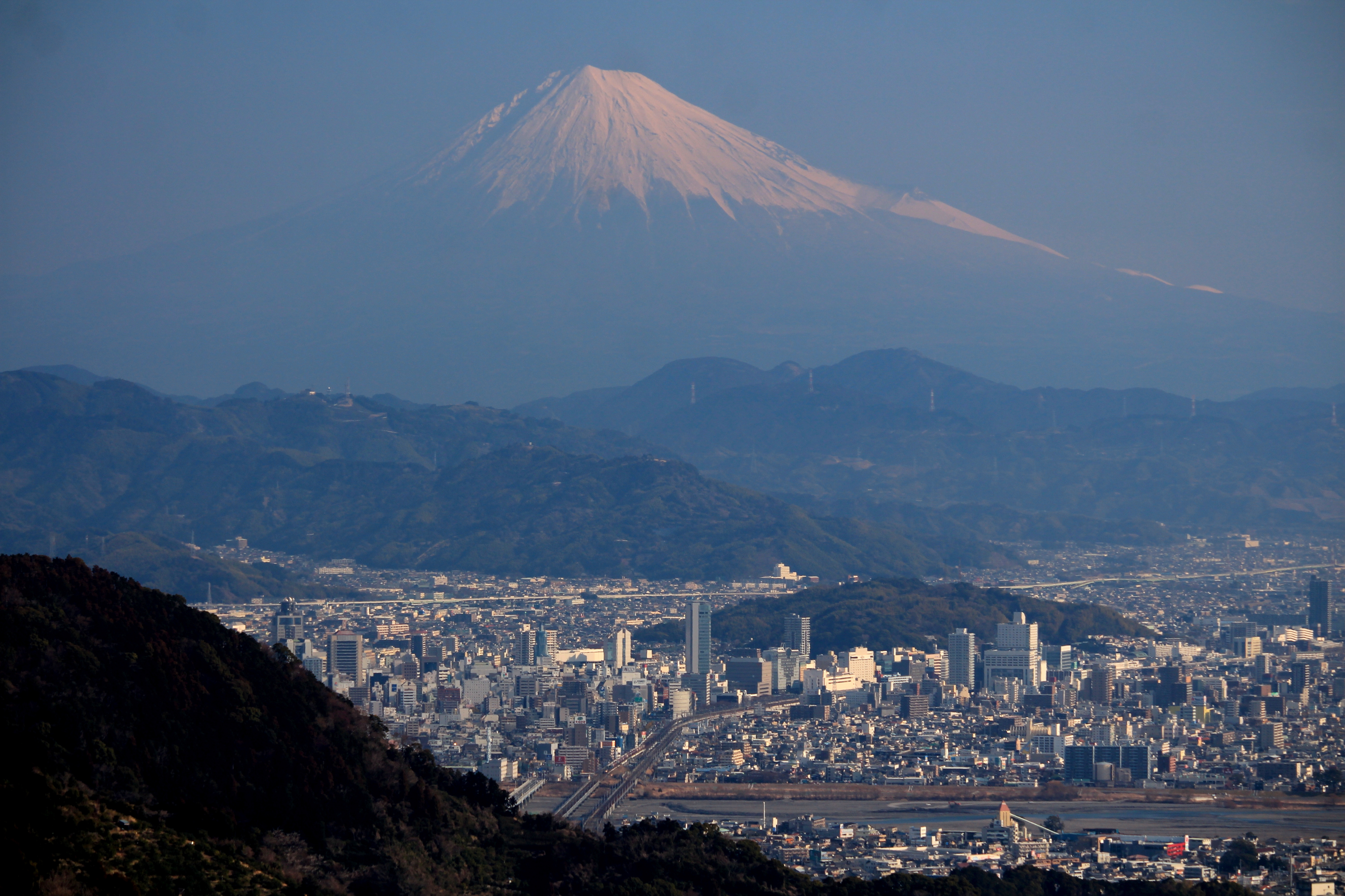 Mount Fuji and Shizuoka Station seen from Mount Mankan in Shizuoka Prefecture, Japan.